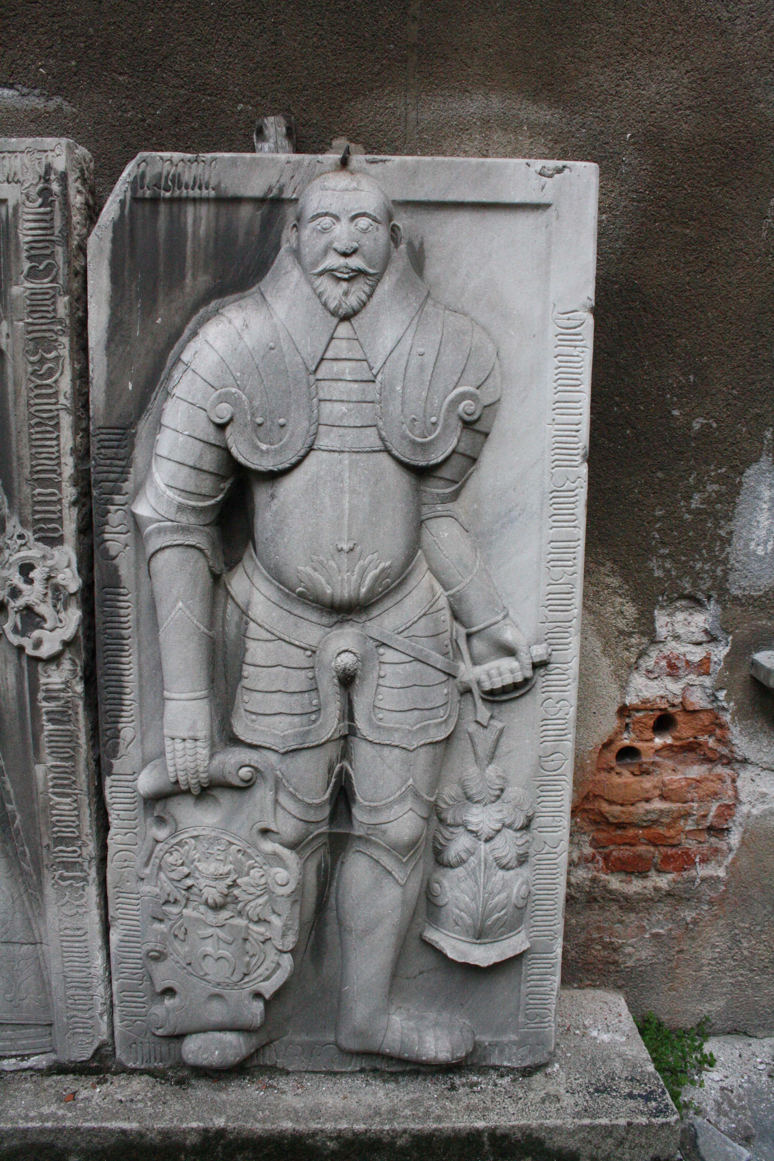 Gravestone of Smil Osovský in collections of Muzeum Vysočiny.